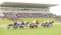 Horse racing action at Limerick races, National hunt racing at a Grade one track in Limerick